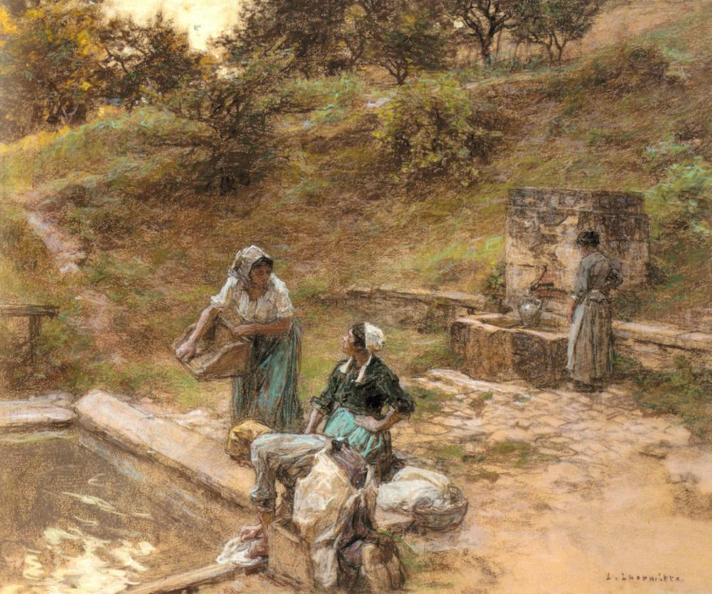 painting by Léon Augustin Lhermitte